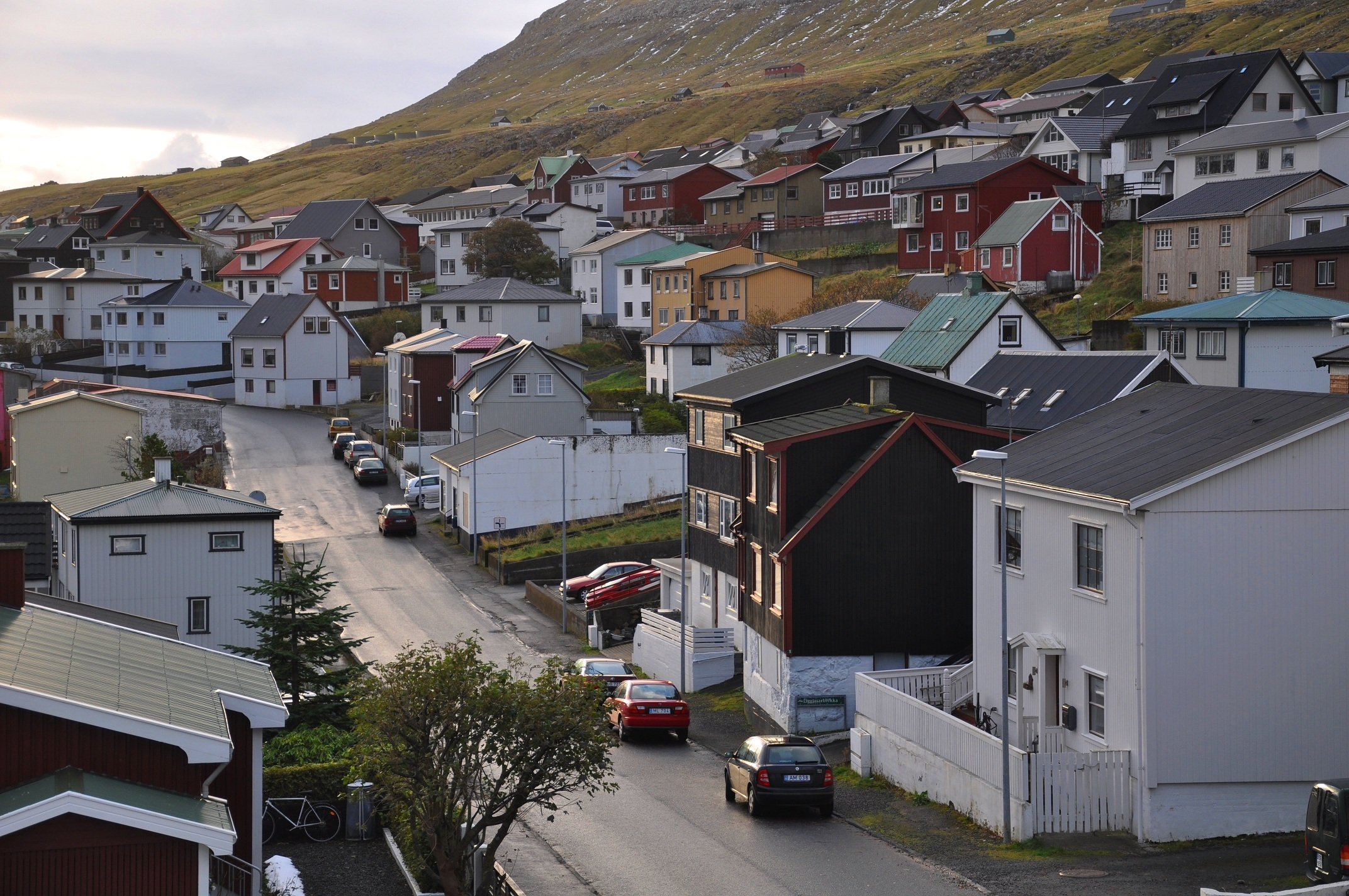 Víkavegur in Klaksvík (Borðoy, Faroe Islands, Denmark), seen from Hotel Klaksvík.